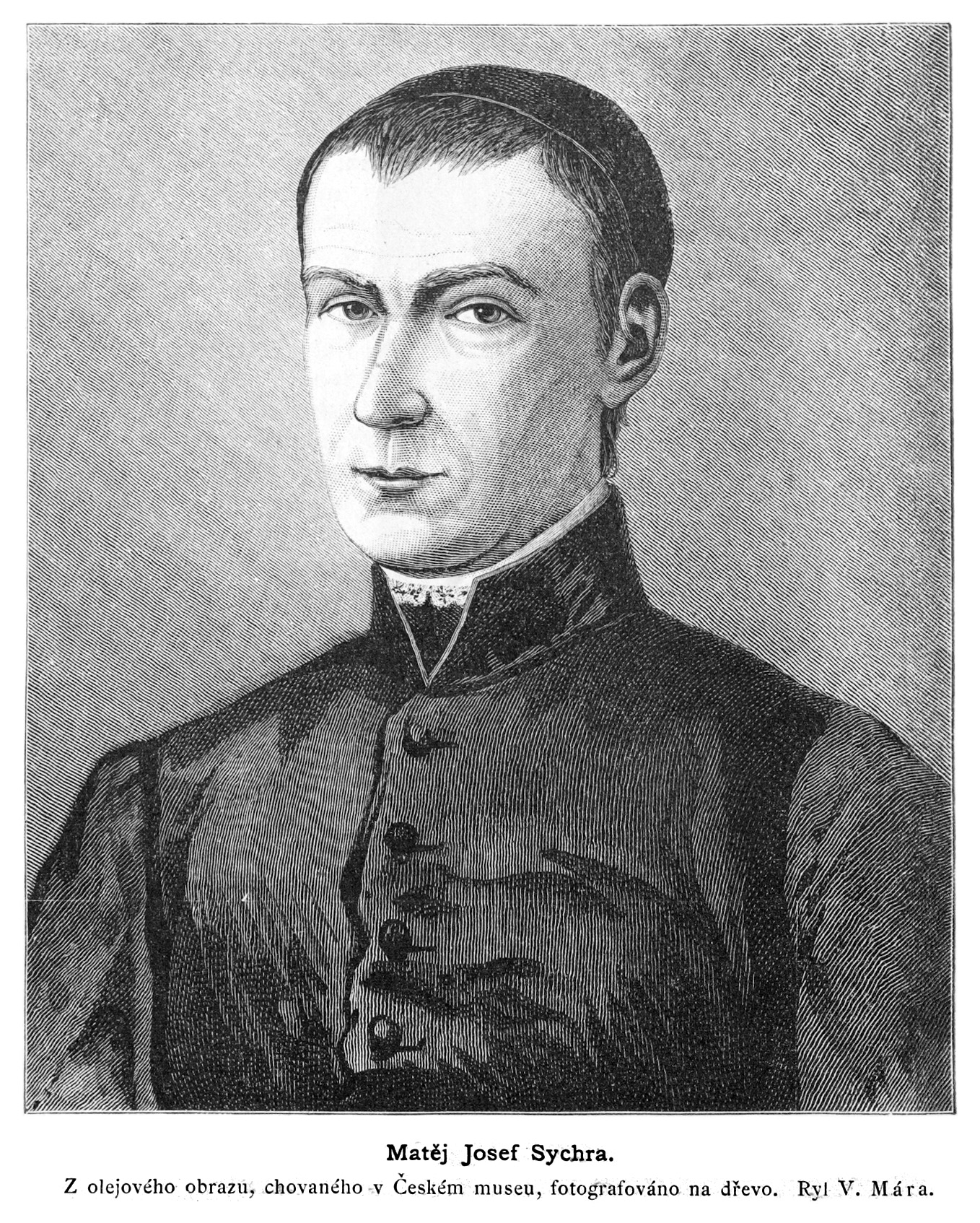 Portrait of Czech priest and writer Matěj Josef Sychra; engraved by Václav Mára according to a photograph taken from an oil painting